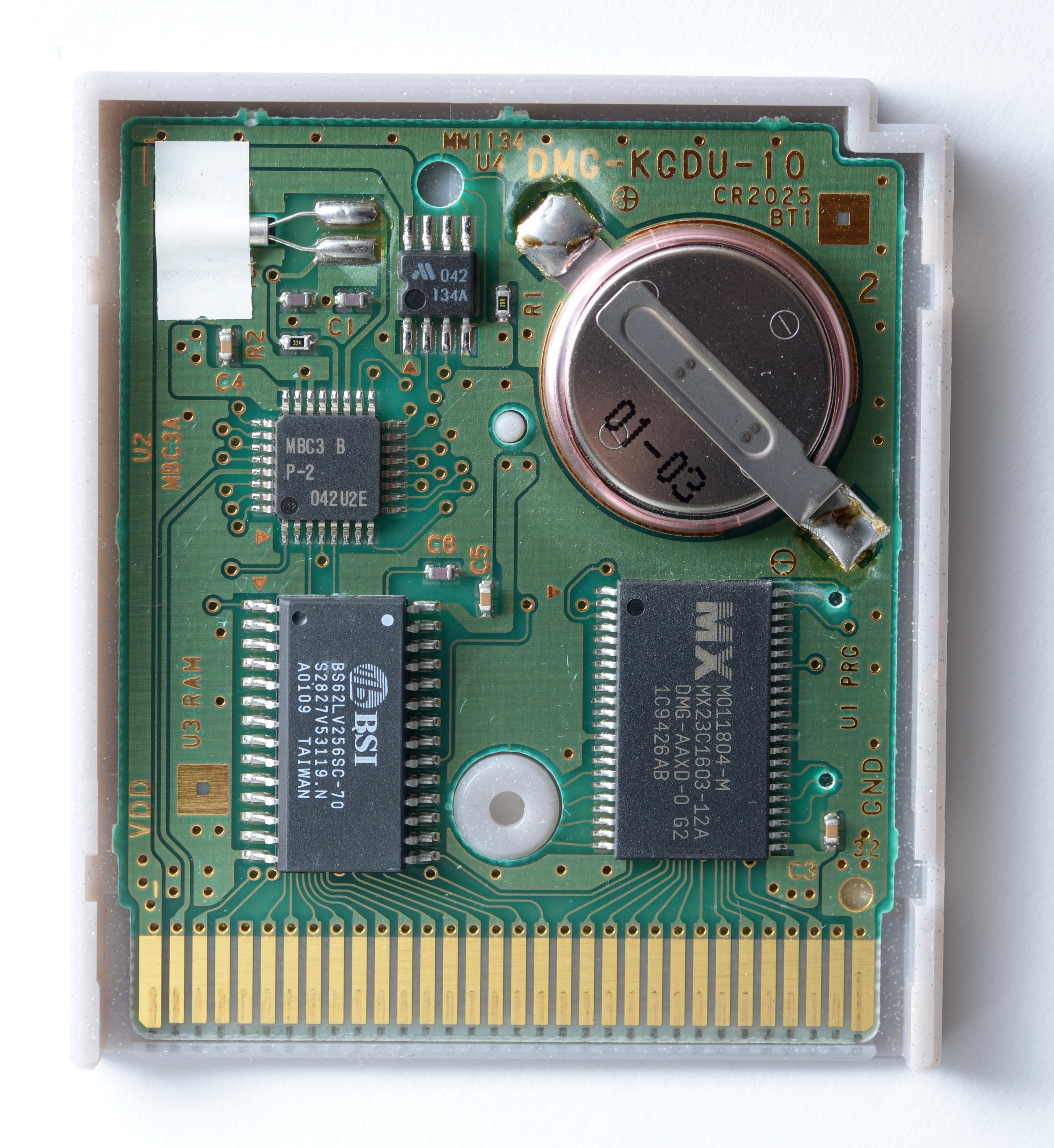 Opened ROM cartridge for the Game Boy Color. Here: Pokémon Silver. Some ROMs, like this one, use battery fed RAM. When the battery is empty old save games are lost and new ones cannot be restored anymore. The only possibility to enable saving again is to manually replace the battery with a new one, like e.g. described here. The tutorial also suggests to use a CR2032 battery (220 mAh) instead of the original CR2025 battery (165 mAh). The ROMs are closed with kind of an External Torx screw. I could open it by molding a plastic screwdriver: An empty plastic pen melted over a flame and pressed into the hole gave a perfectly formed (but not so stable) screw driver.